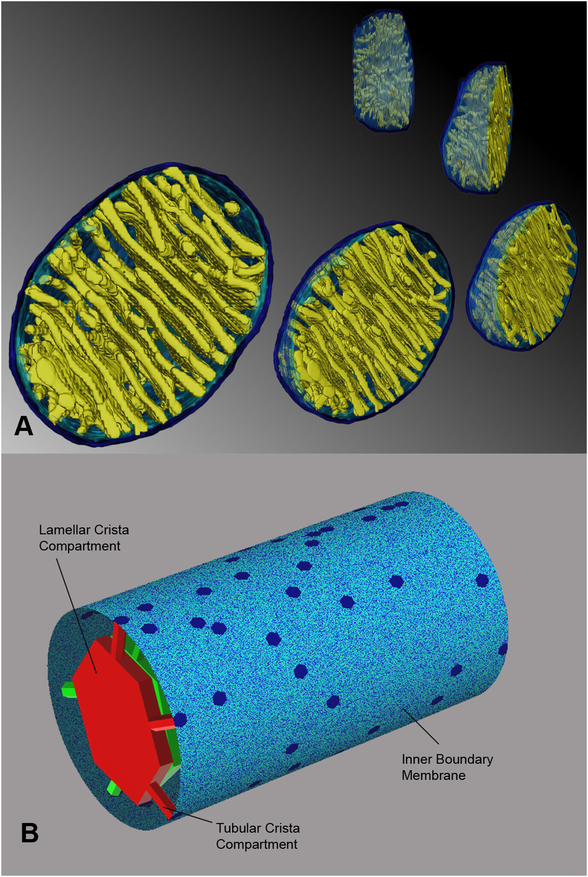 Structure of mitochondrial membraneous compartments. (A) Membrane surface rendering of mitochondrial tomogram. Cristae (yellow), inner boundary membrane (light blue) and outer membrane (dark blue) are shown from different perspectives. (B) Computational model of the inner mitochondrial membrane. Blue: inner boundary membrane; red and green: two examplary cristae. In both (A) and (B) lamellar compartments (central cristae parts) are connected to the inner boundary membrane through a number of tubular compartments of variable lengths but of uniform diameter.